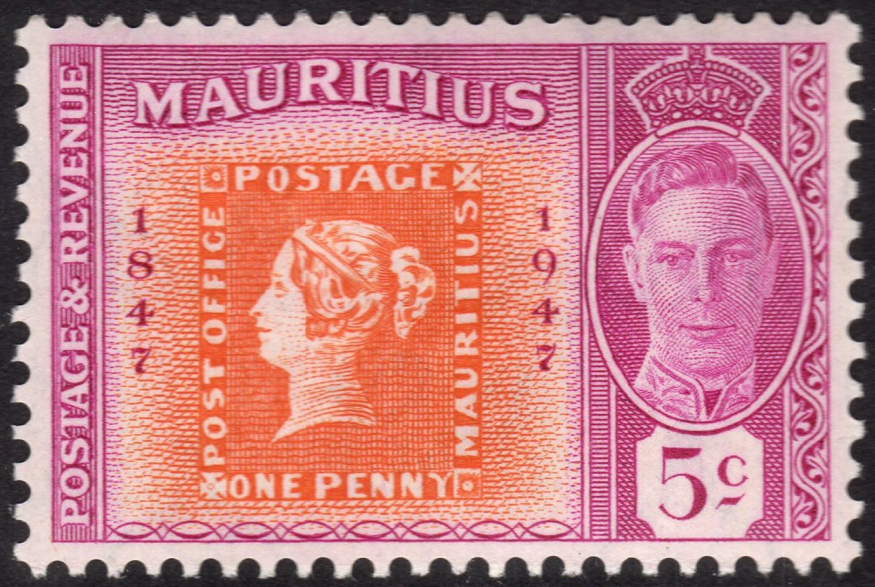 1947 stamp centenary Mauritius.